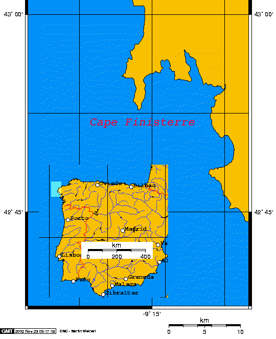 Cape Finisterre. Created using PD and GFDL sources: US Government datasets, GMT software, and GIMP in Linux: GMT is an open source collection of ~60 tools for manipulating geographic and Cartesian data sets (including filtering, trend fitting, gridding, projecting, etc.) and producing Encapsulated PostScript File (EPS) illustrations ranging from simple x-y plots via contour maps to artificially illuminated surfaces and 3-D perspective views. GMT supports ~30 map projections and transformations and comes with support data such as coastlines, rivers, and political boundaries. GMT is developed and maintained by Paul Wessel and Walter H. F. Smith with help from a global set of volunteers, and is supported by the National Science Foundation. It is released under the GNU General Public License ... data from the US national data centers (NOAA, USGS, NGDC, NEIC) can be used with GMT, and they are all freely available from these centers and individuals via the internet ...